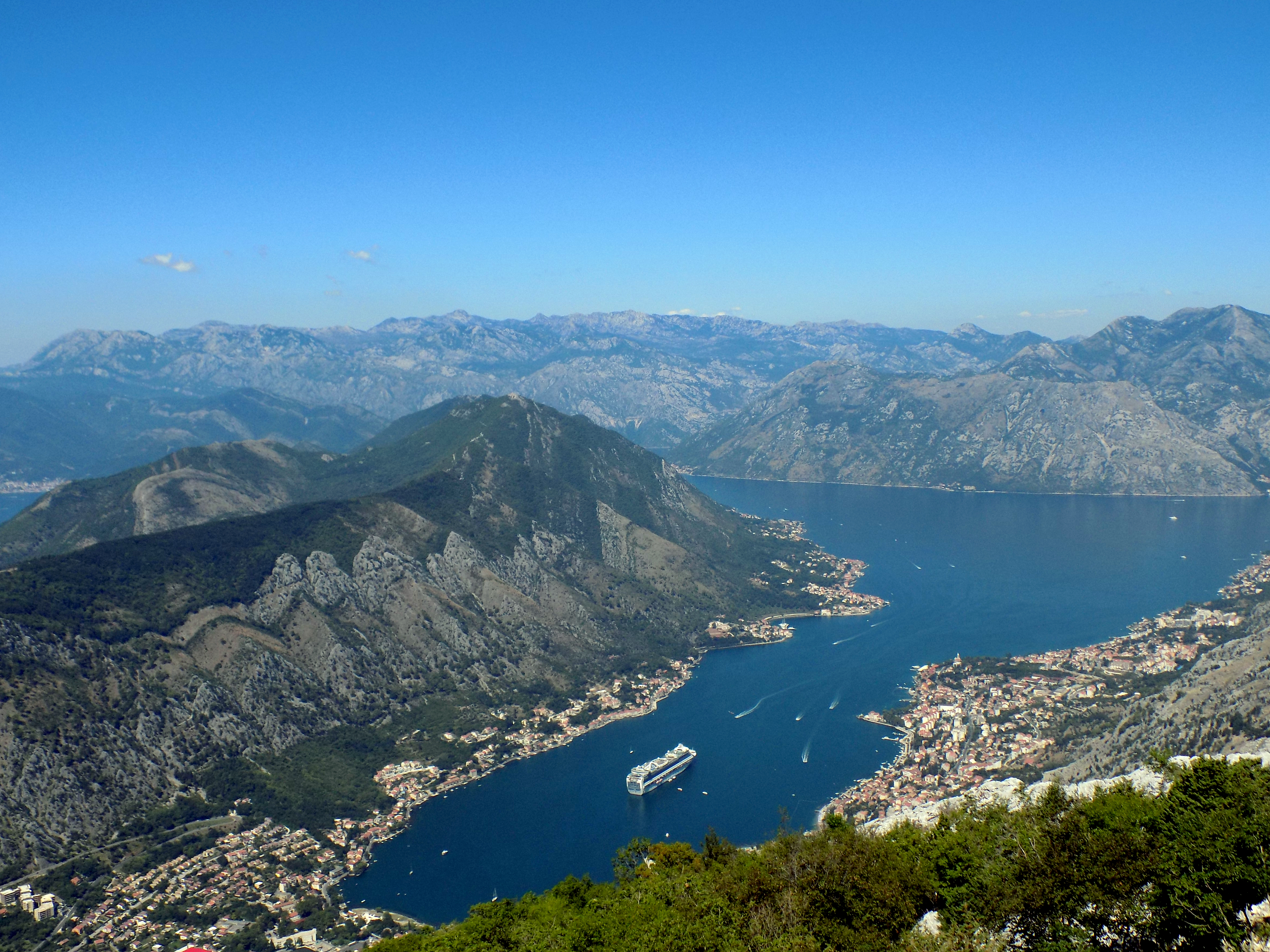 R-1 regional road (Montenegro) - view from the lookout at Kotor Bay